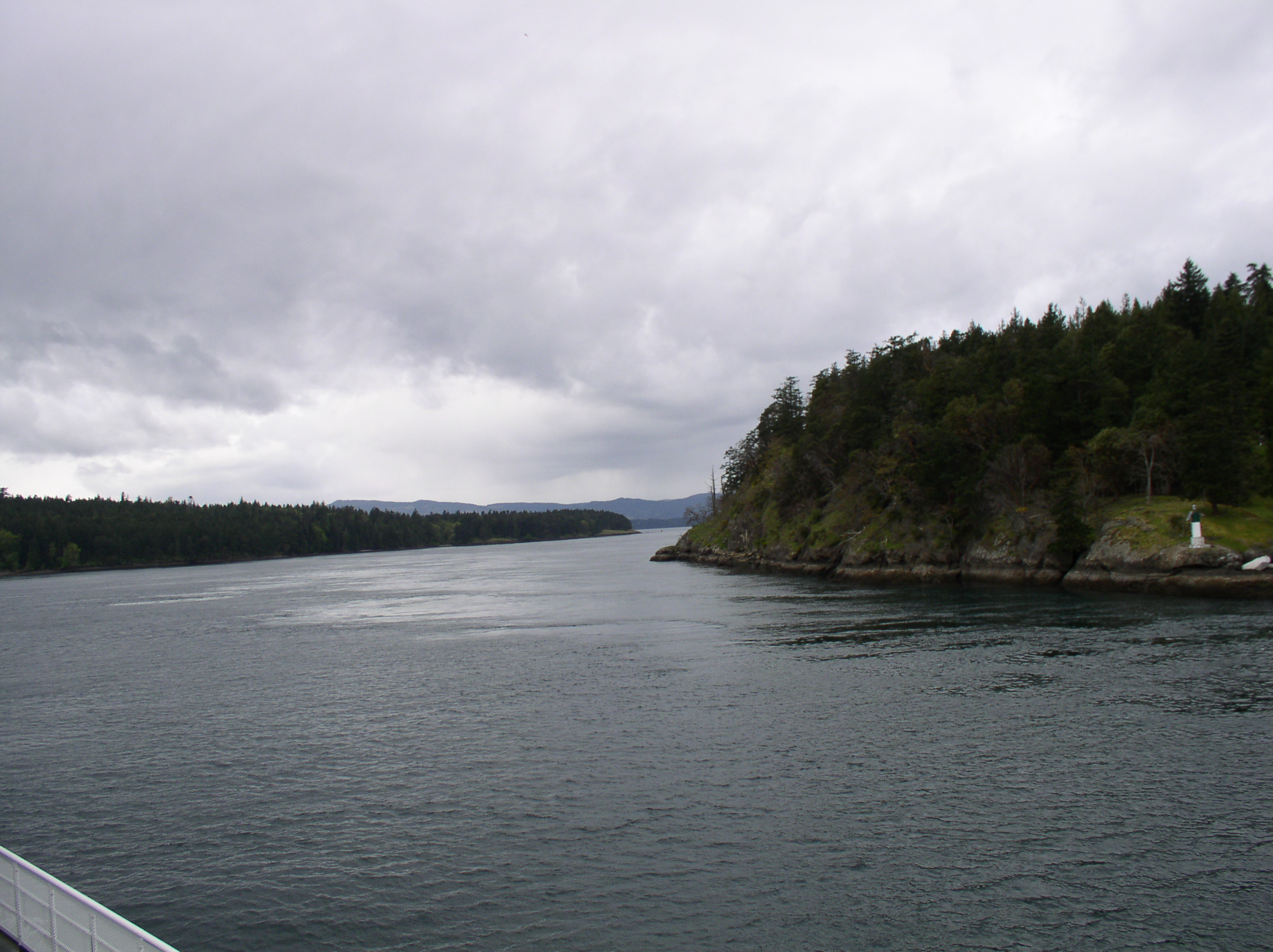 Active Pass in British Columbia's Gulf Islands